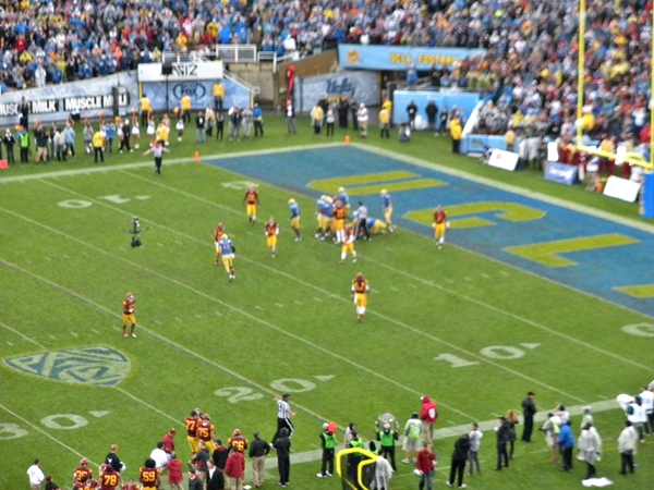 UCLA vs. USC football game at the Rose Bowl, Pasadena, CA on November 17, 2012. UCLA won 38-28.